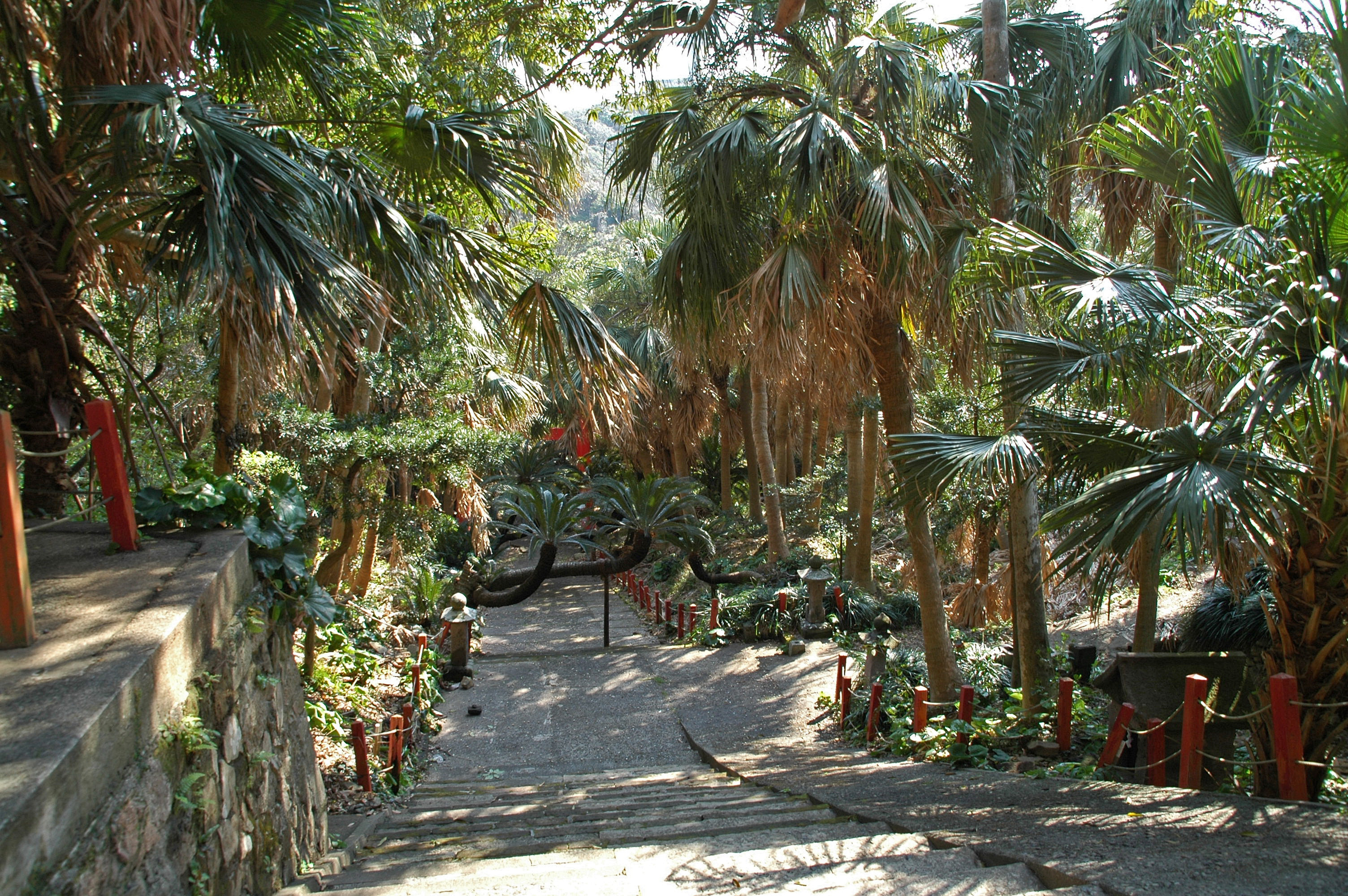 The cycad grows naturally in this near region, and it is specified for the natural monument. Satamisaki View Park in Minami Osumi-chio, Kagoshima.